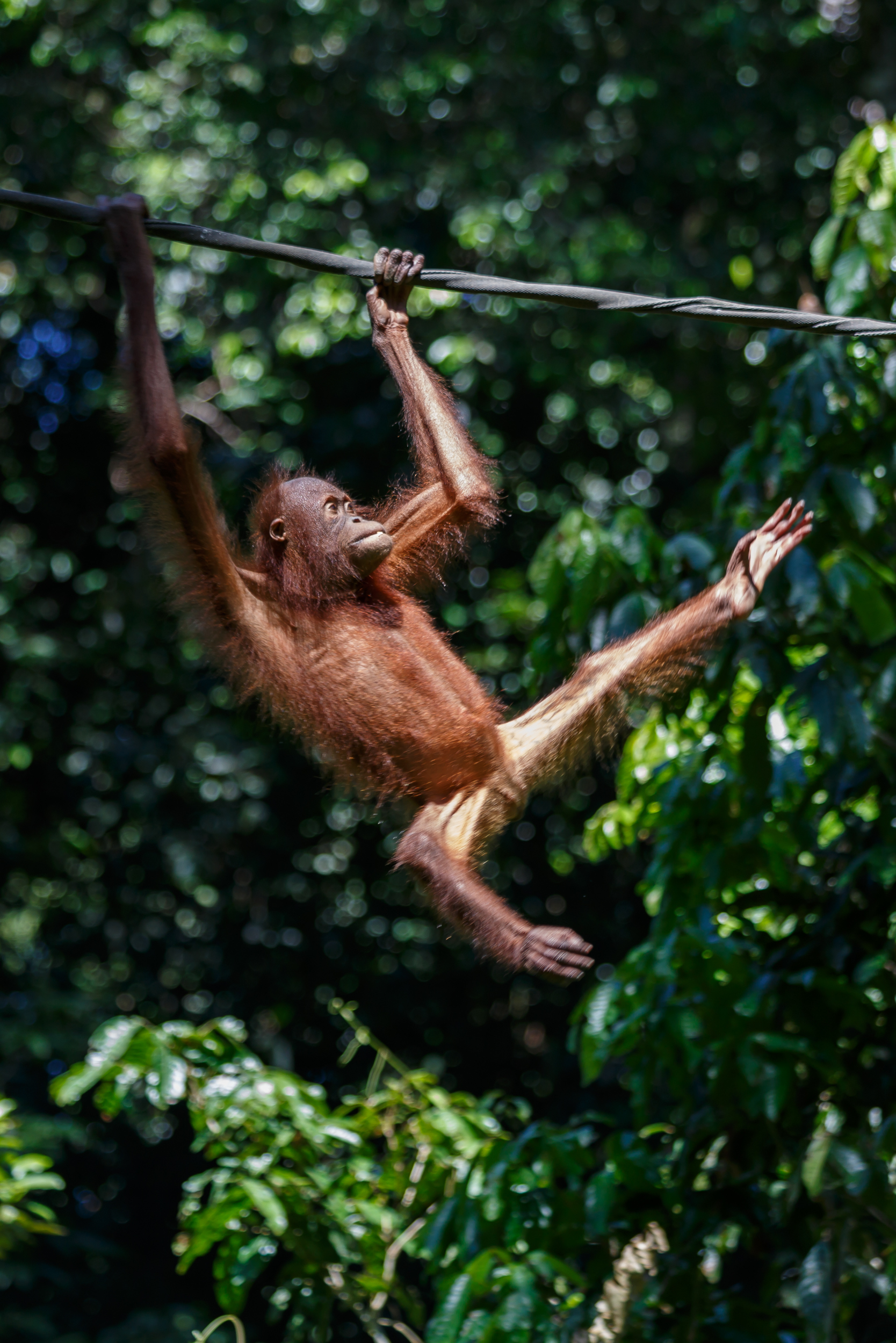 District Sandakan, Sabah: Orangutan heading to feeding station at Sepilok Orangutan Rehabilitation Centre